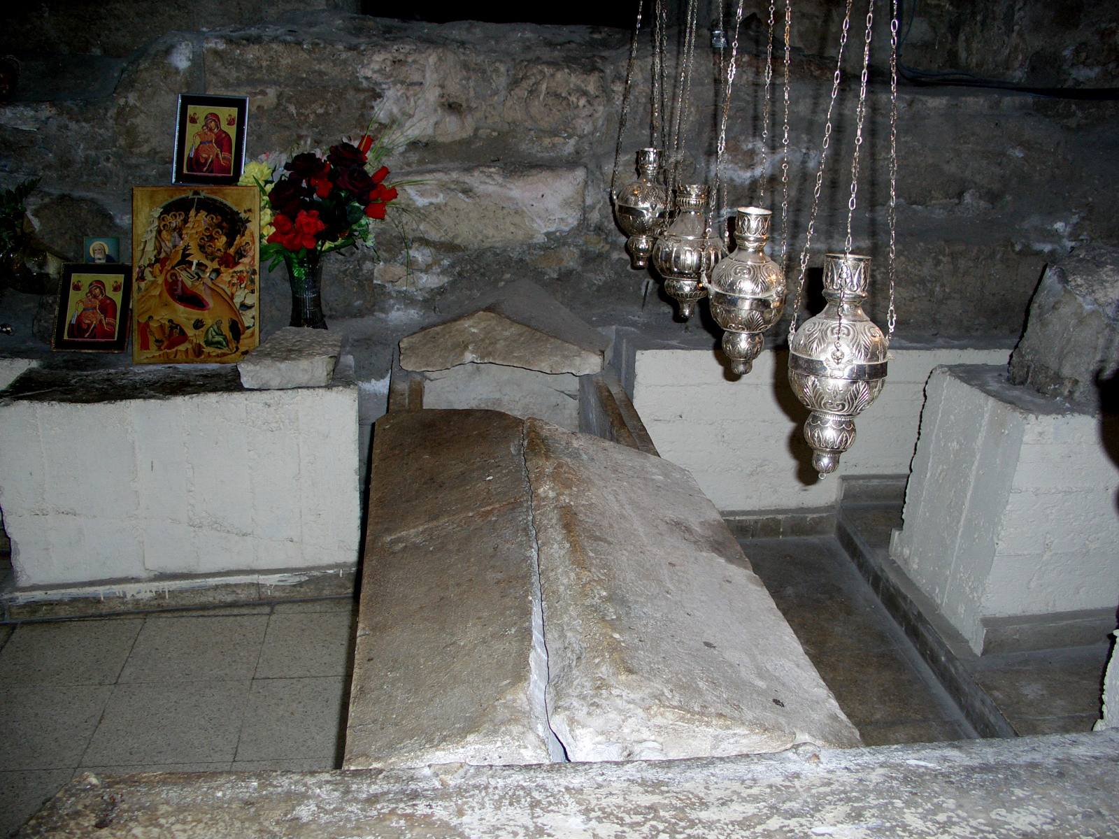 St Lazarus Cathedral, Larnaca, Cyprus. Alleged Tomb of Lazarus